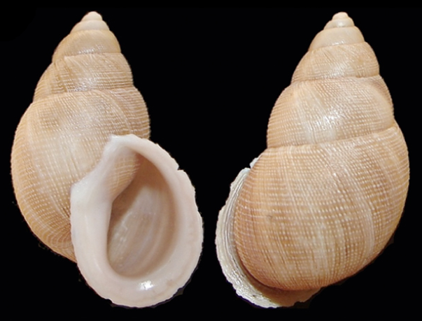 Photo of apertural and abapertural view of the shell of Scutalus mariopenai. Paratype RMNH 114056.